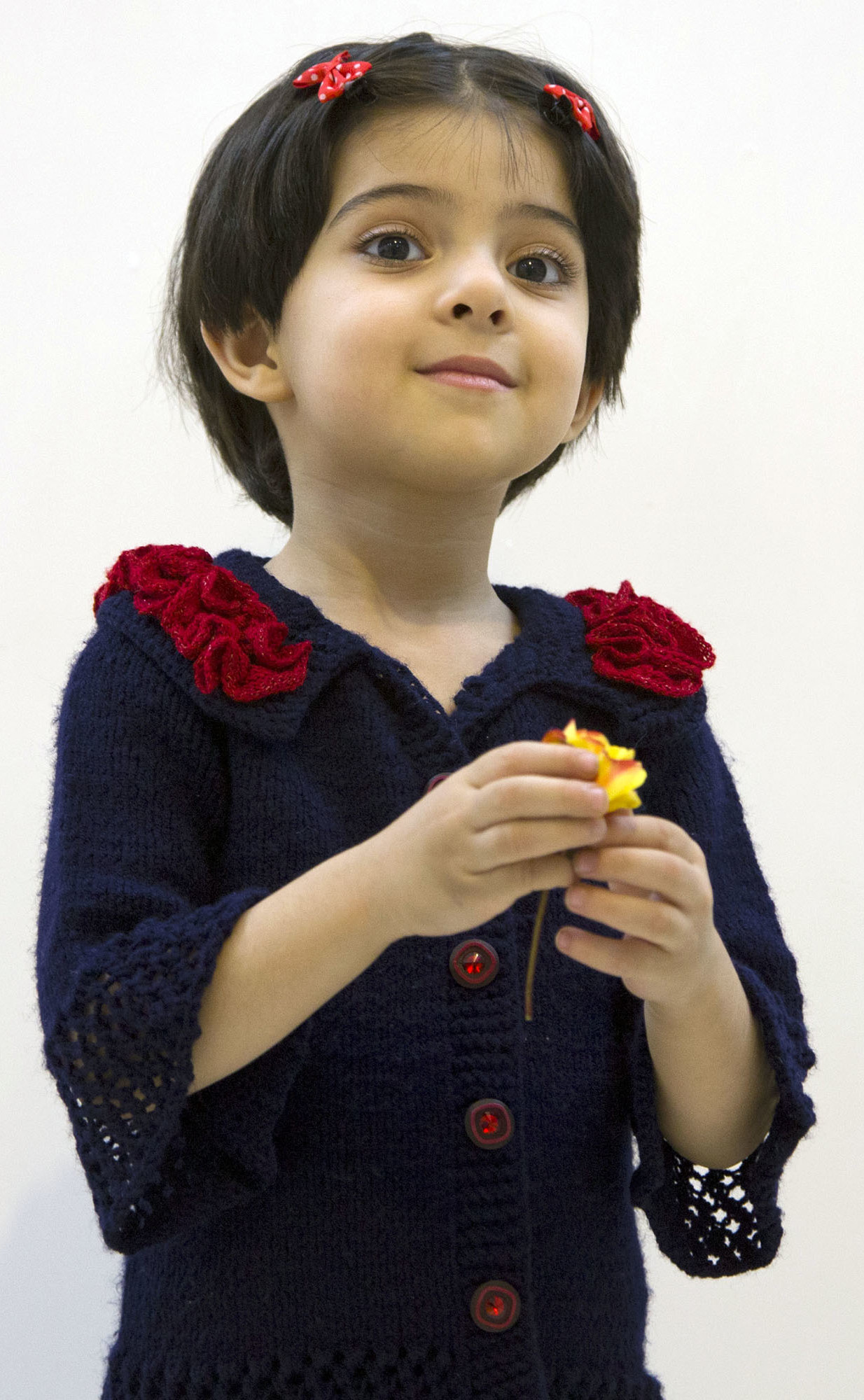 Biologically, a child (plural: children) is a human being between the stages of birth and puberty.